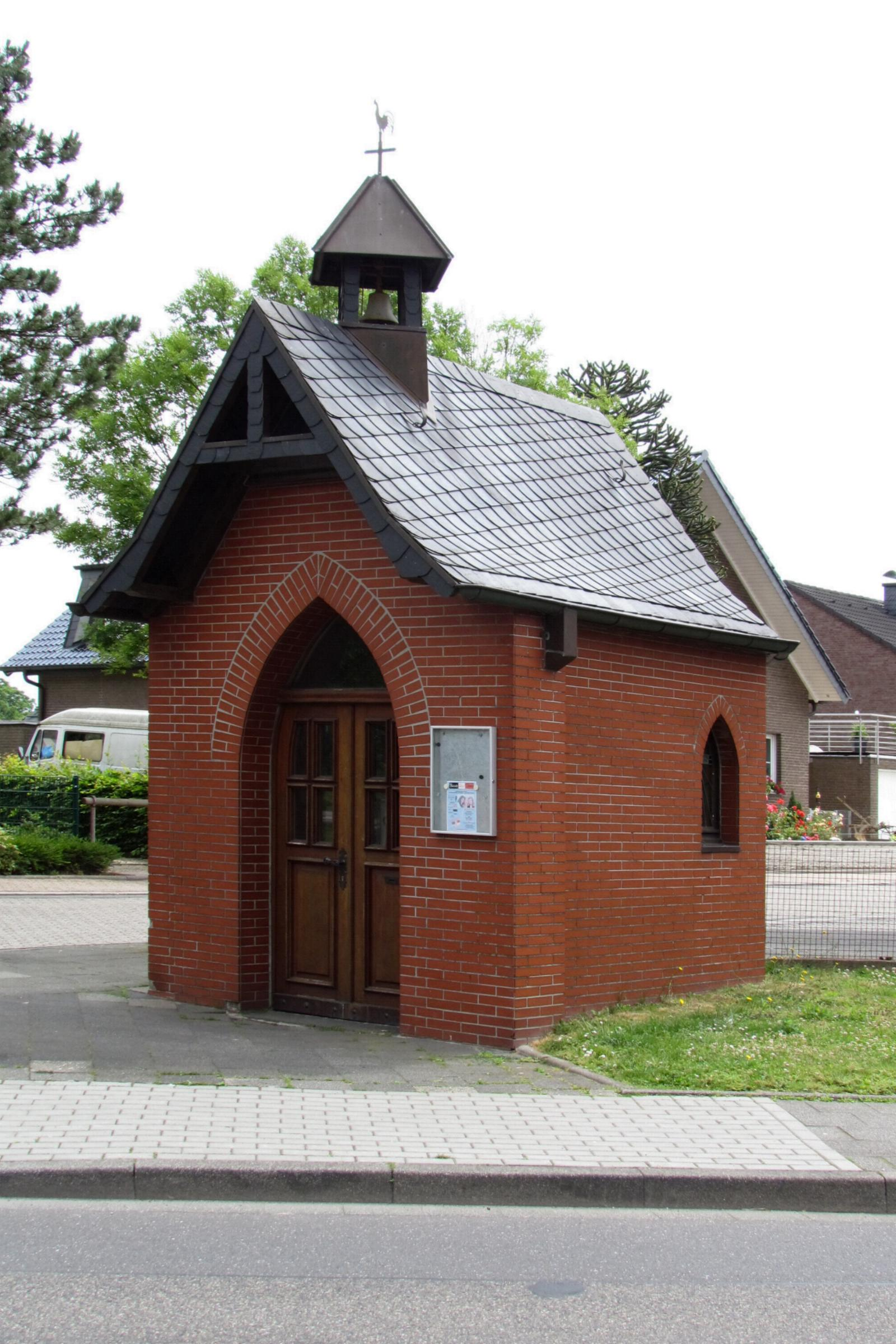 This is a photograph of an architectural monument.It is on the list of cultural monuments of Korschenbroich